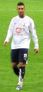 Egyptian football (soccer) player Mido